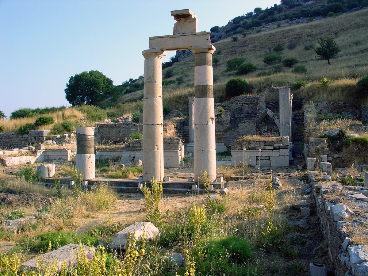 The Prytaneion in Ephesos.